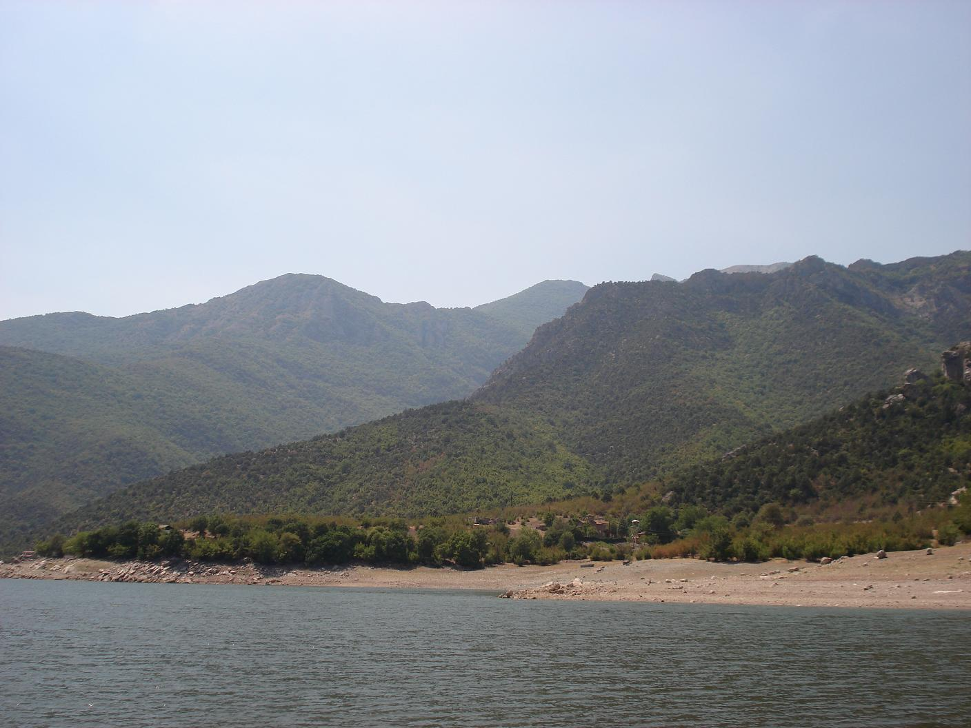 Lake Tikves coast